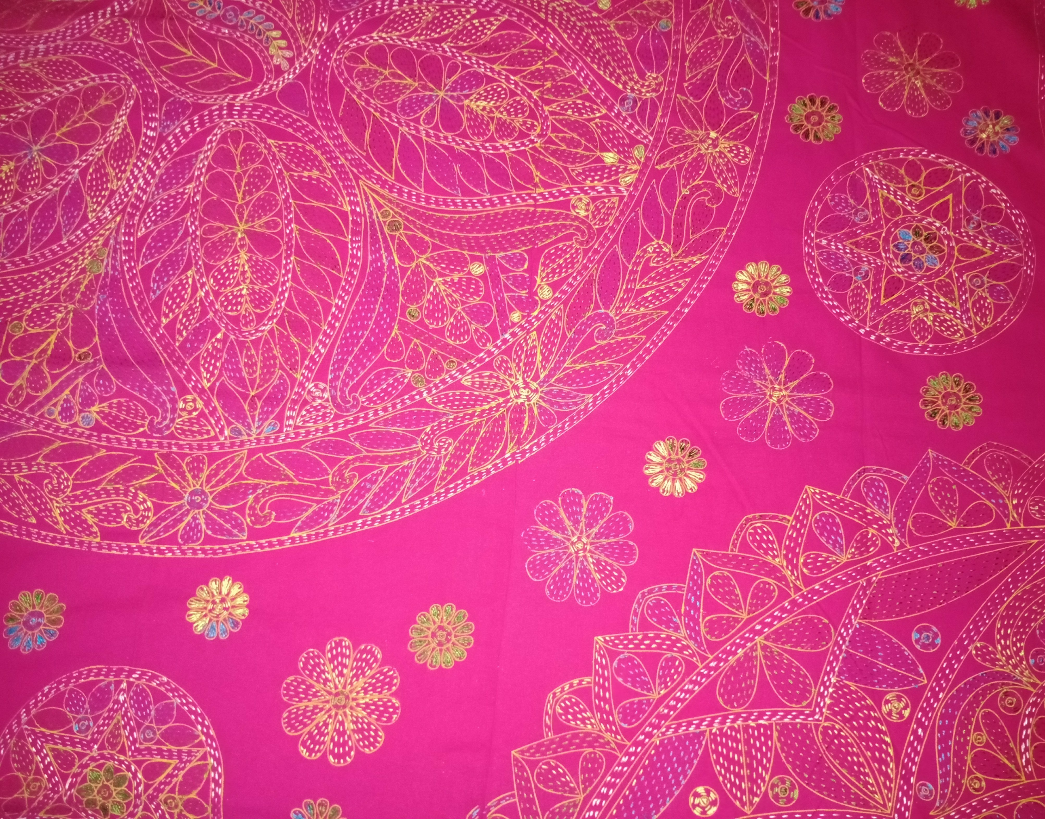 Embroidery bangla